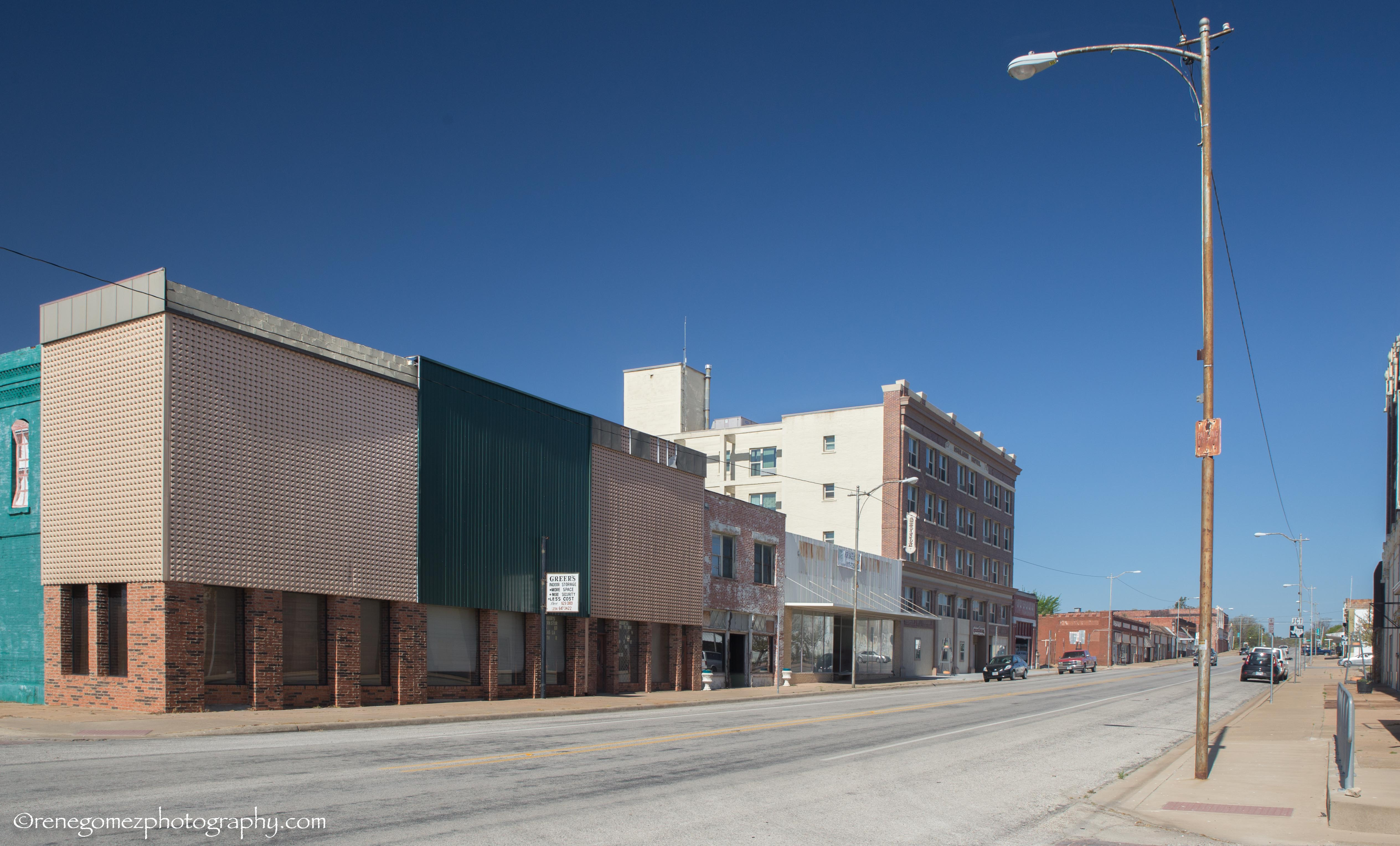 Buildings in downtown Ranger, Texas